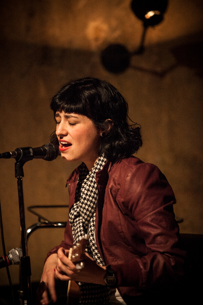 The Secret Show February 27, 2013 Blind Barber Culver City, CA Photo by Joel Mandelkorn